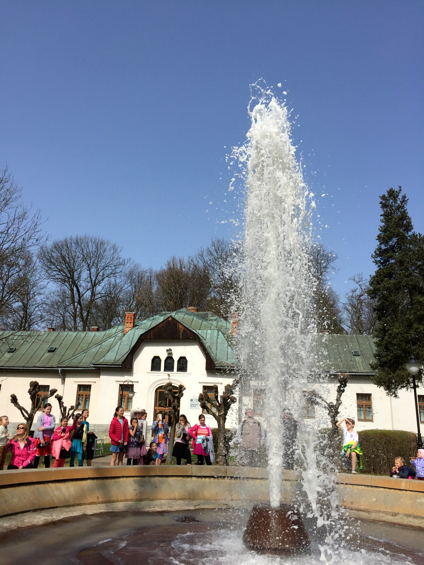 Geyser in Herlany